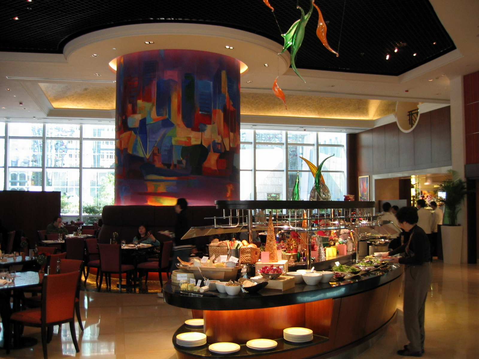 HK Langham Place Hotel The Place Restaurant